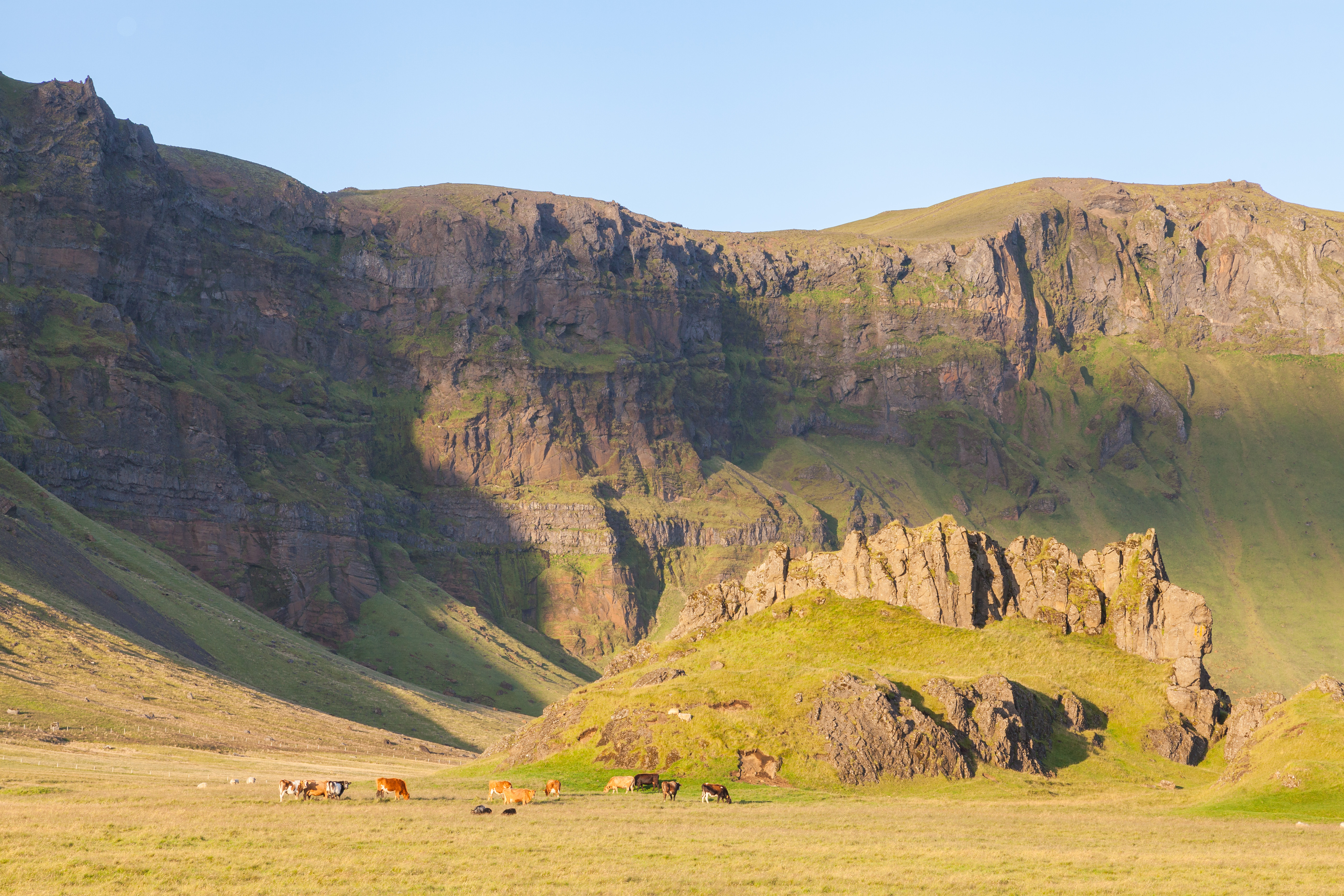 Storhofthi, Suðurland, Iceland